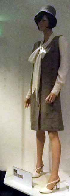 Clothes from the Dress of the Year collection at the Fashion Museum, Bath. Dress of the Year for 1963 (Mary Quant). Grey wool flannel with cream bow fronted blouse. Grey hat. Cropped. Levels adjusted.